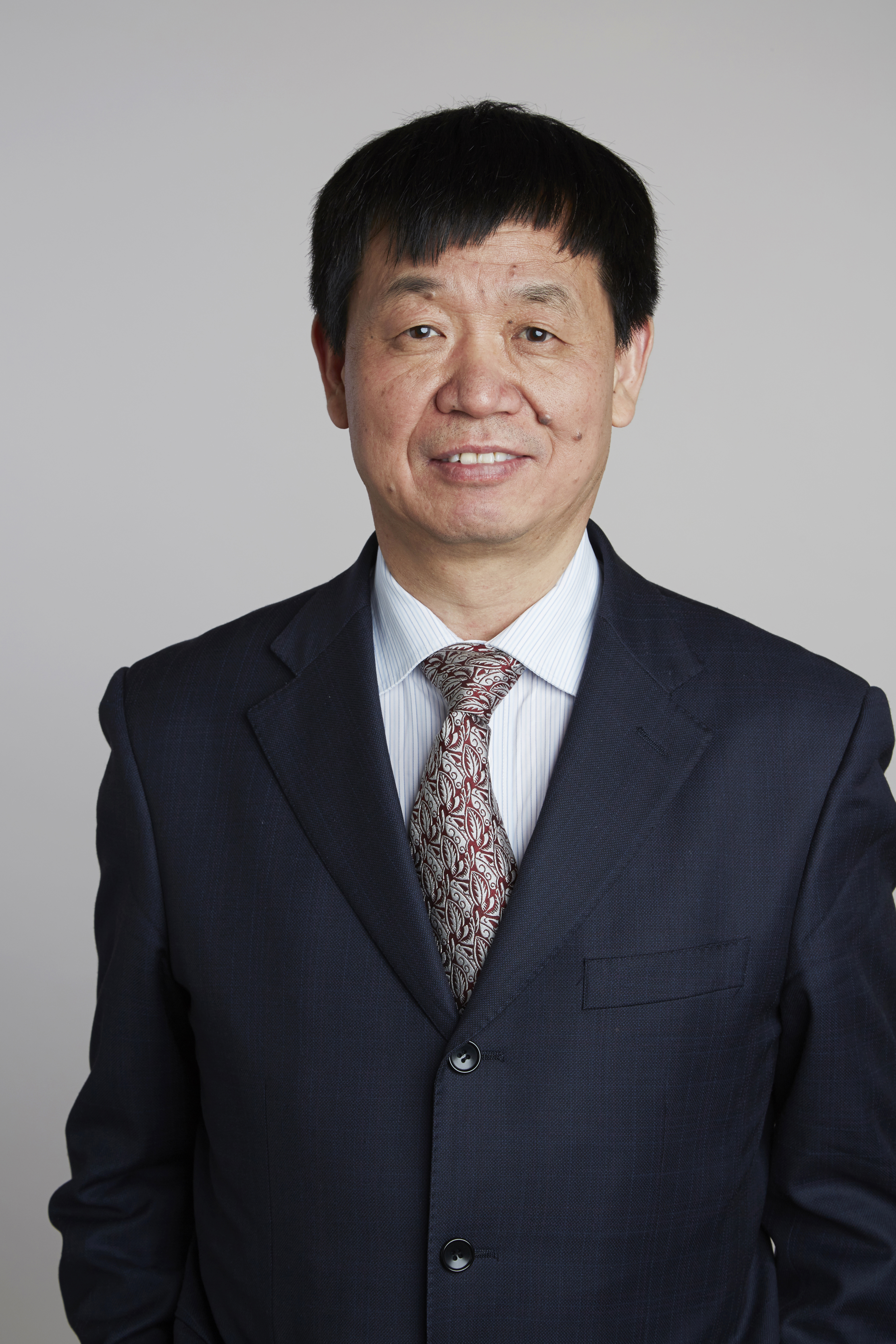 Jiayang Li is currently the President of Chinese Academy of Agricultural Sciences and vice minister of Agriculture, and Professor of Institute of Genetics and Developmental Biology, Chinese Academy of Sciences (CAS). He earned his PhD in biology from Brandeis University in 1991, MS in biology from IGDB in 1984, and BS in agronomy from Anhui Agricultural College in 1981. After completing his postdoctoral research at Boyce Thompson Institute for Plant research at Cornell University, He was recruited as a professor of plant molecular genetics by IGDB, CAS since 1995. His work is mainly focusing on the elucidation of molecular mechanisms underlying plant architecture and the demonstration that this fundamental knowledge can contribute to the development of improved rice varieties through marker assisted breeding. He was elected as a CAS academician in 2001, and members or foreign members of academies including the Academy of Sciences for the Developing World (2004), the USA National Academy of Sciences (2011), The German Academy of Sciences (2012), EMBO (2013), and The International Eurasian Academy of Sciences (2014). Attribution: The Royal Society